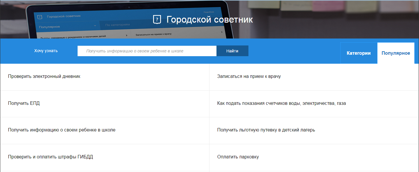 Главная страница раздела "Городской советник"